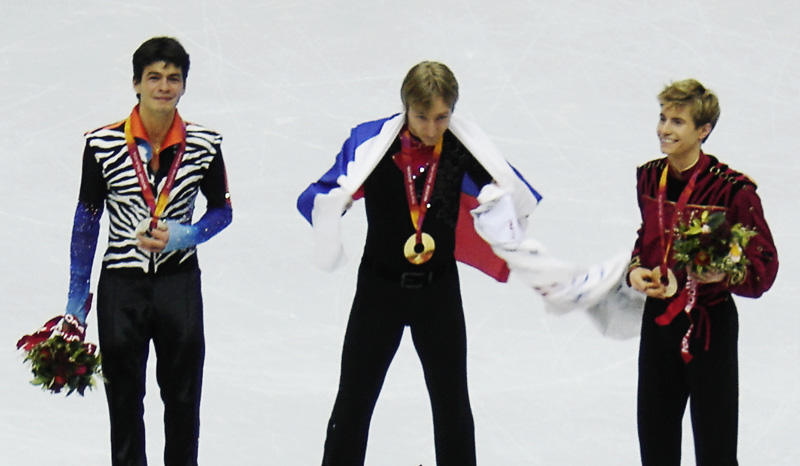 Picture of the medalists taken by myself after the medal ceremony in Torino Palavela.